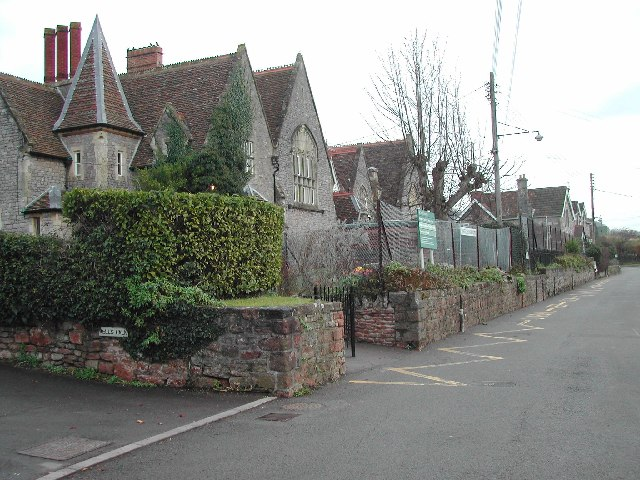 Wrington school, Wrington, Somerset